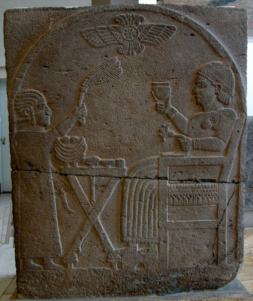 Queen's Lunch. Hittite relief from Samal (now Zincirli). Pergamonmuseum, Berlin